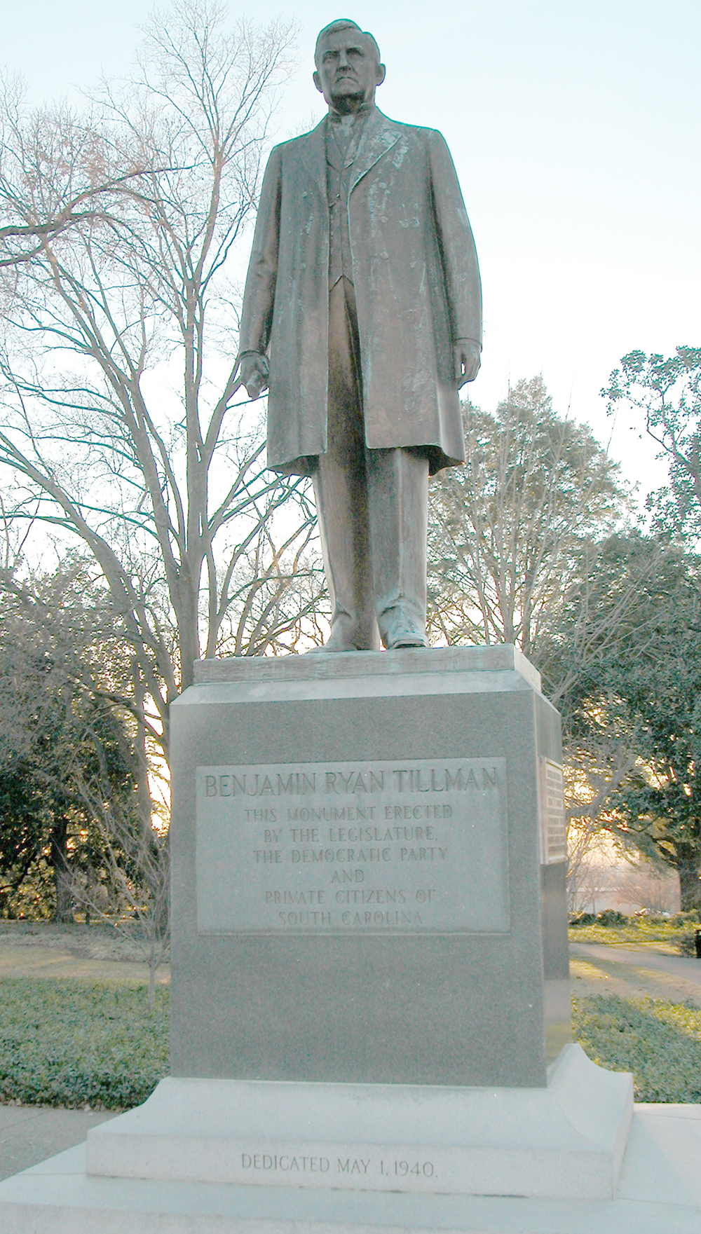 Ben Tillman statue on SC statehouse grounds Image copyleft